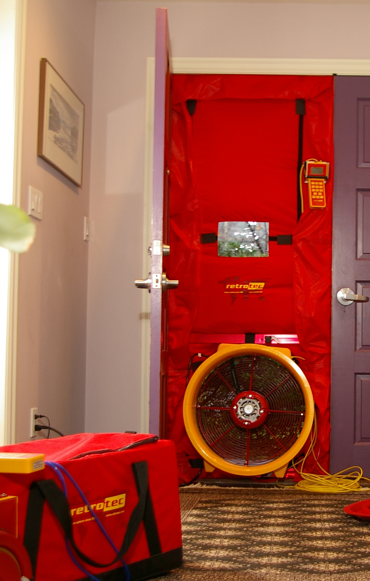 The Model 1000 fan operates at up to 6,300 CFM, and is suitable for residential, light commercial and industrial applications.